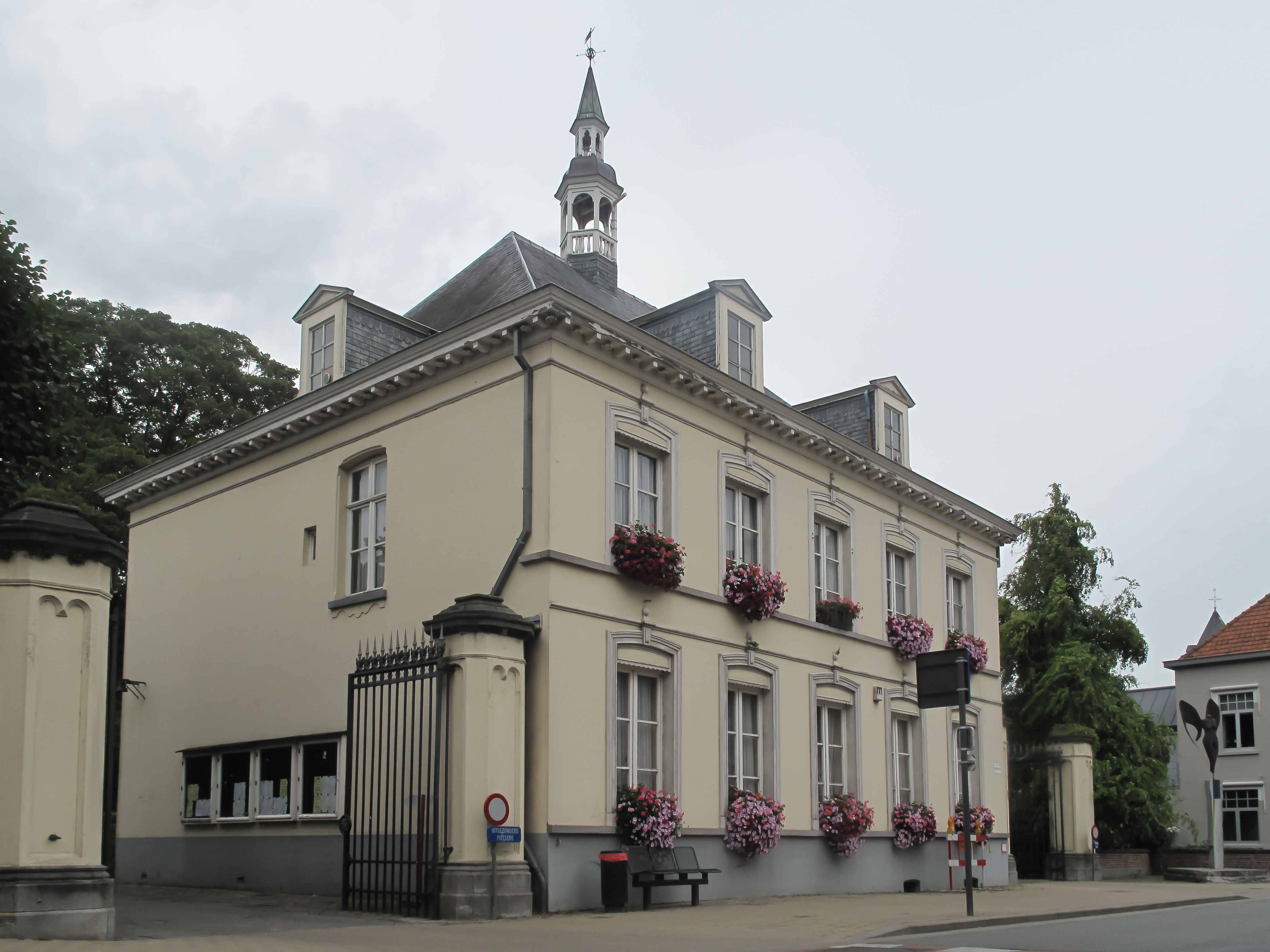 Maldegem, castle: Sint Annakasteel Westeindestraat 1 RM50742